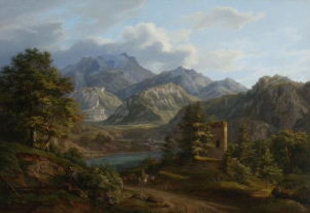 hulk and palace at Fernsteinpass